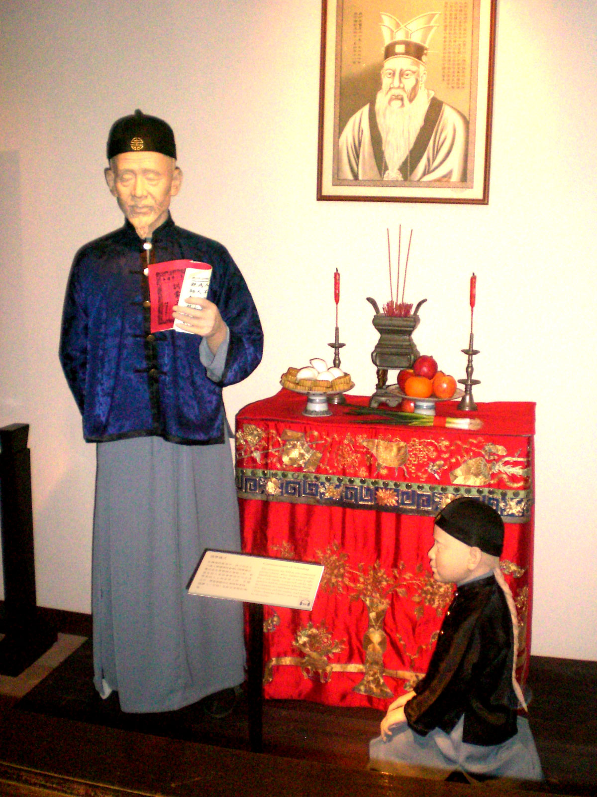 香港歷史博物館, Hong Kong Museum of History, 孔子像及開學式